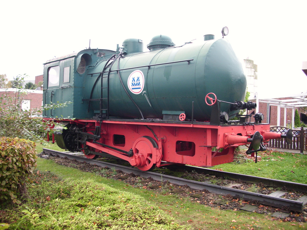 Henschel Fireless locomotive